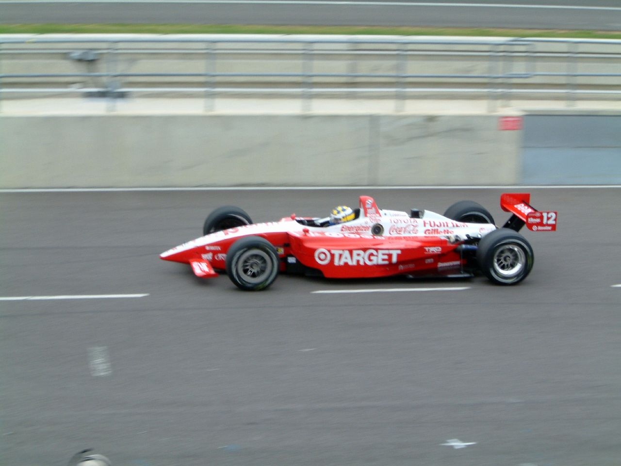 Kenny Bräck driving for Chip Ganassi Racing in the 2002 Sure For Men Rockingham 500